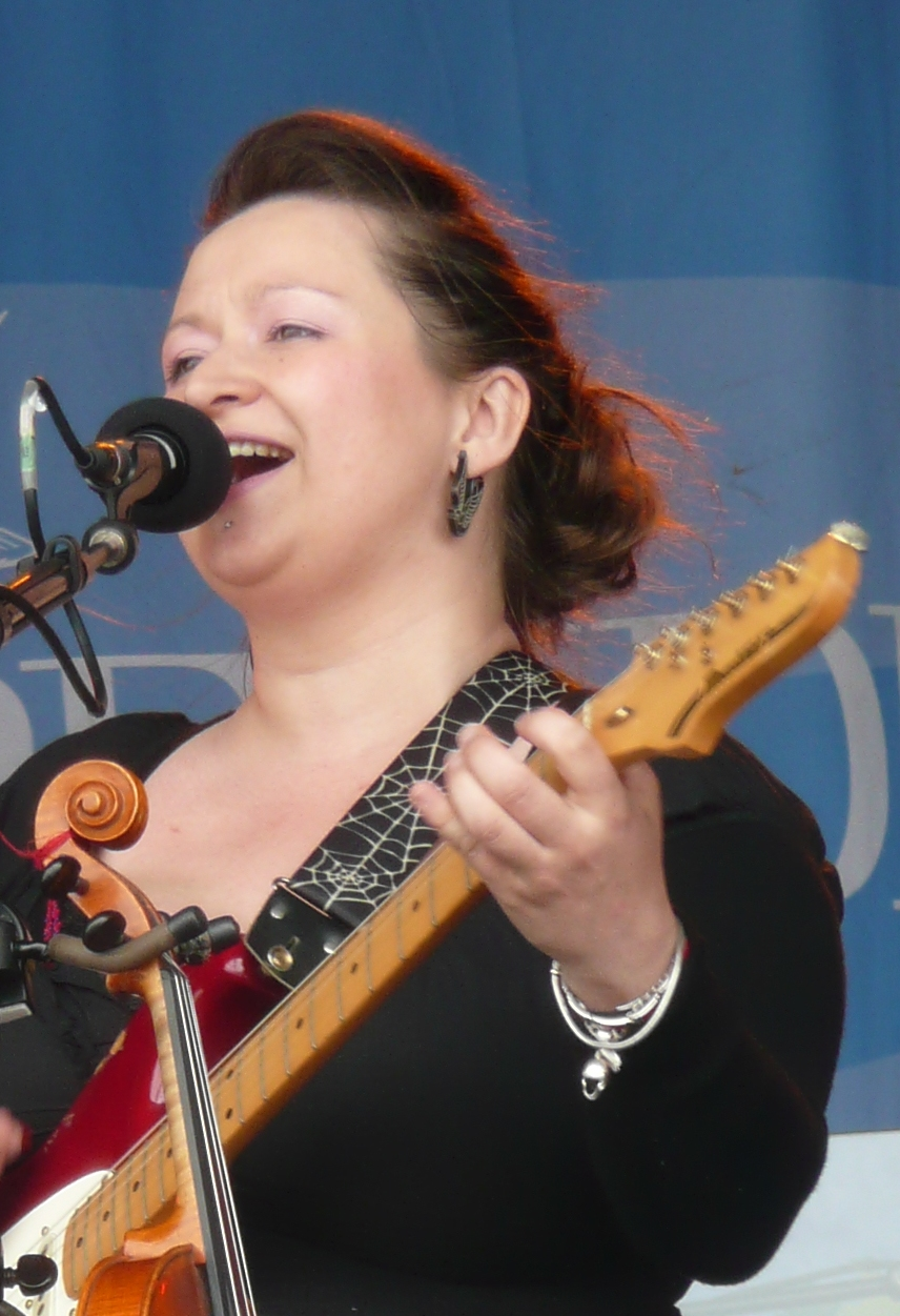 Eliza Carthy on the main stage at the Wychwood Festival, 4 June 2011